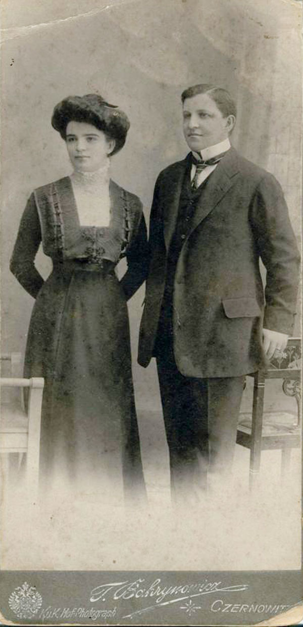 Spouses Sofia (born Tarnovțchi) and Avram Imbroane.